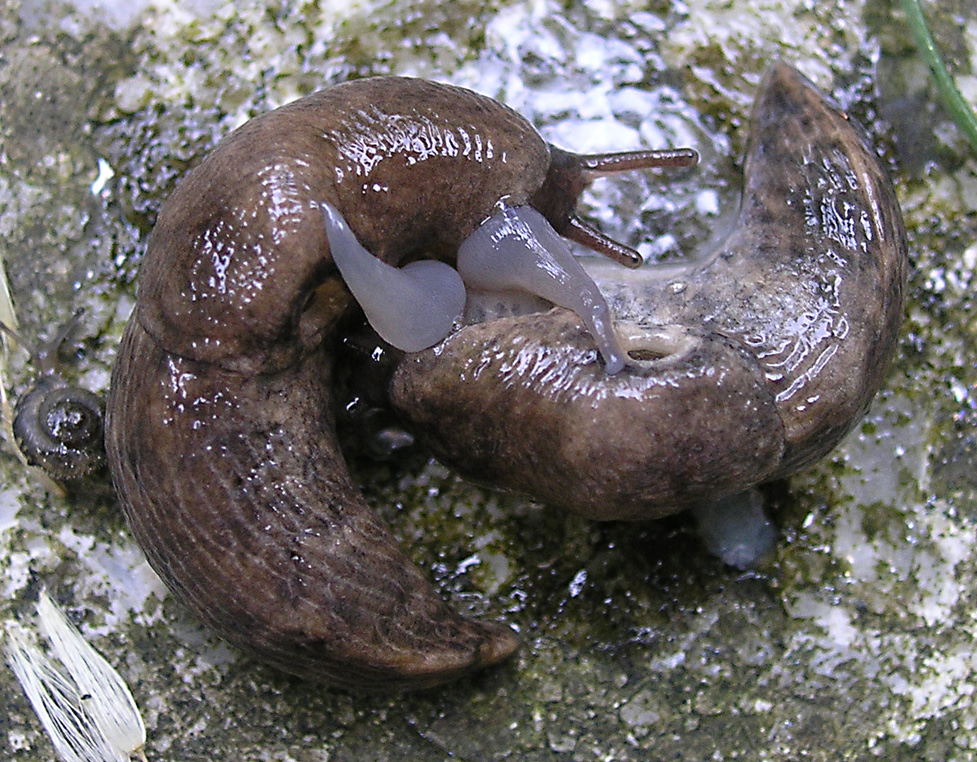 Photo of mating of Deroceras reticulatum